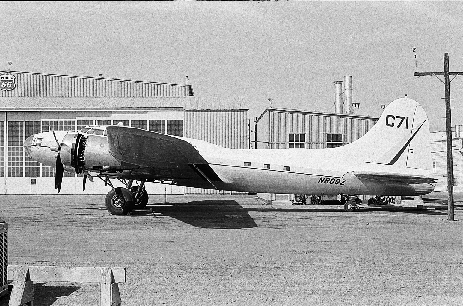 Boeing B-17G (CIA) N809Z at Marana Airpark 28.1.1975, ex 44-83785